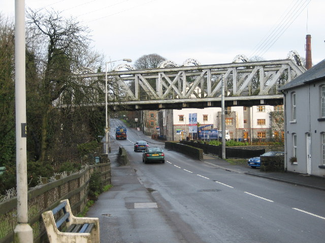 Railway Bridge This bridge carries the single-line railway track from Lisburn to Antrim. It crosses both the road and the Crumlin river. It was built in 1915 by James Findlay and Co. Ltd. of Motherwell.